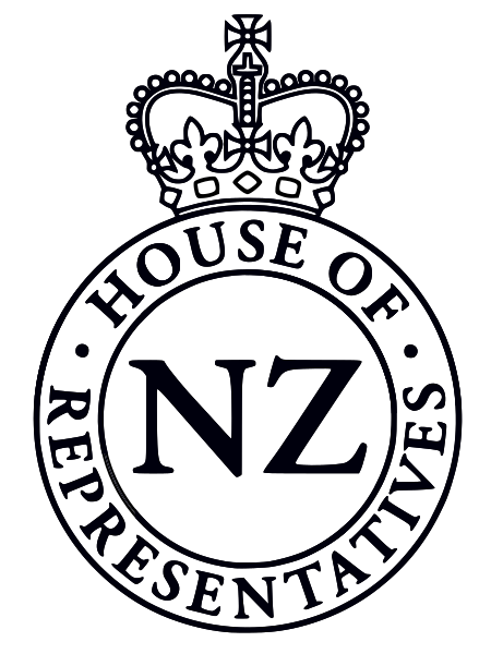 Crest topped with St Edward's Crown